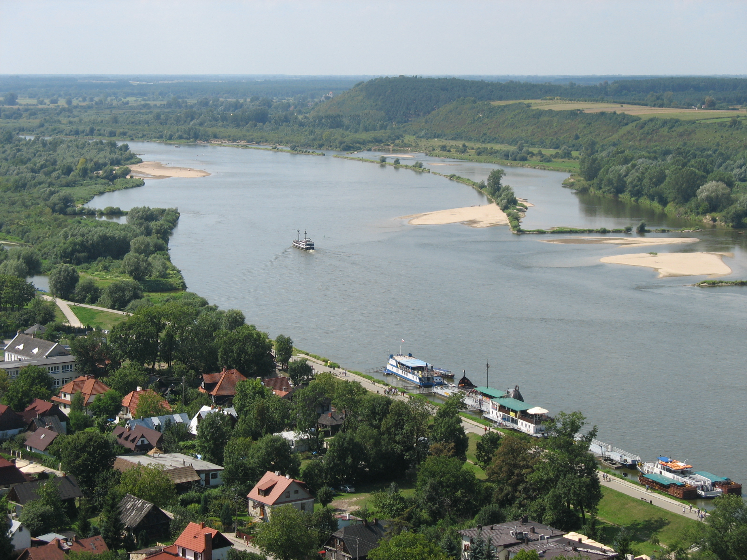 View of the Vistula River from the historic fortified tower in Kazimierz Dolny.